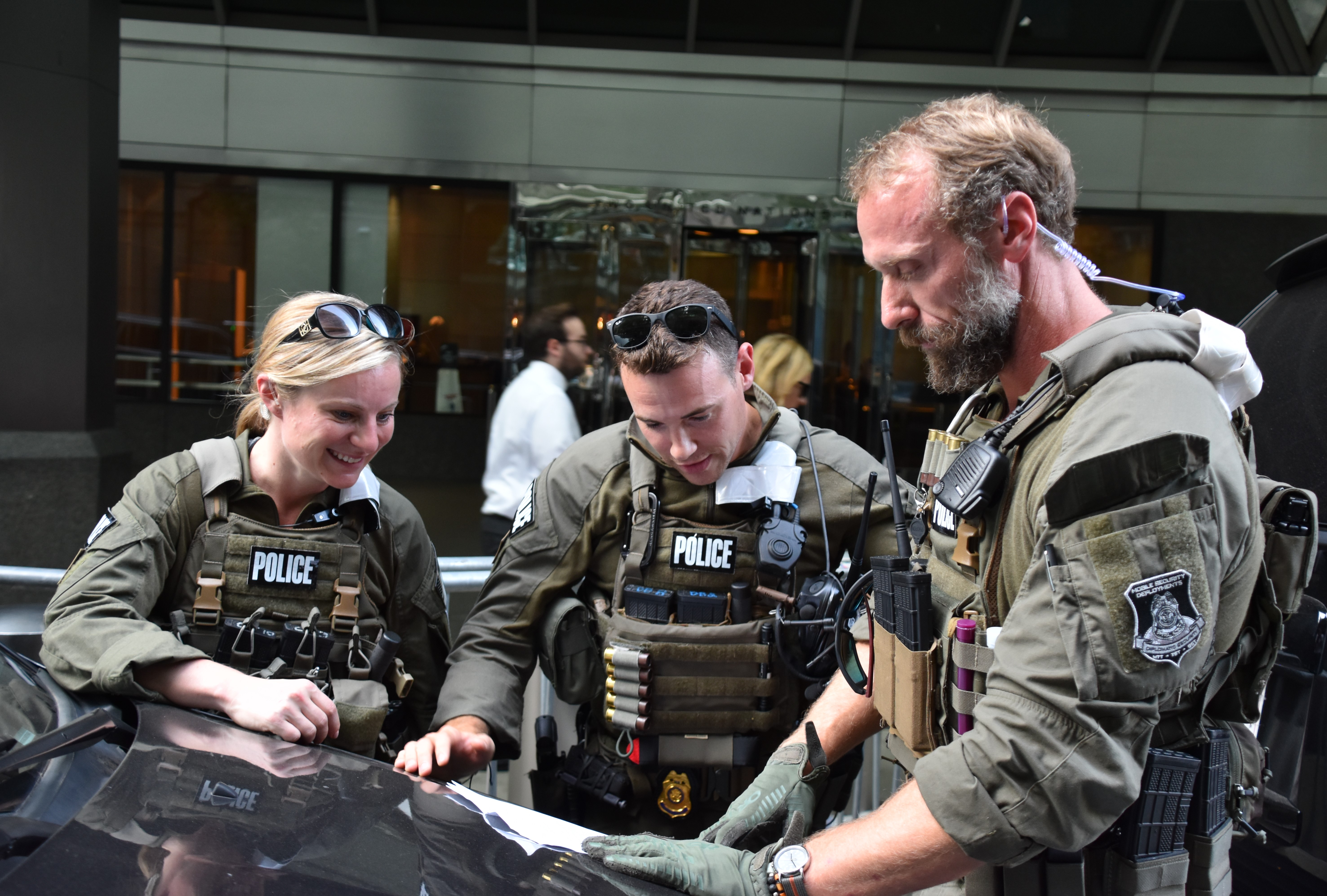 Special agents with the Diplomatic Security Service (DSS) Office of Mobile Security Deployments plan their next move after providing security for the DSS motorcade carrying a foreign dignitary in New York City for the 74th UN General Assembly, Sept. 22, 2019. (U.S. Department of State photo)